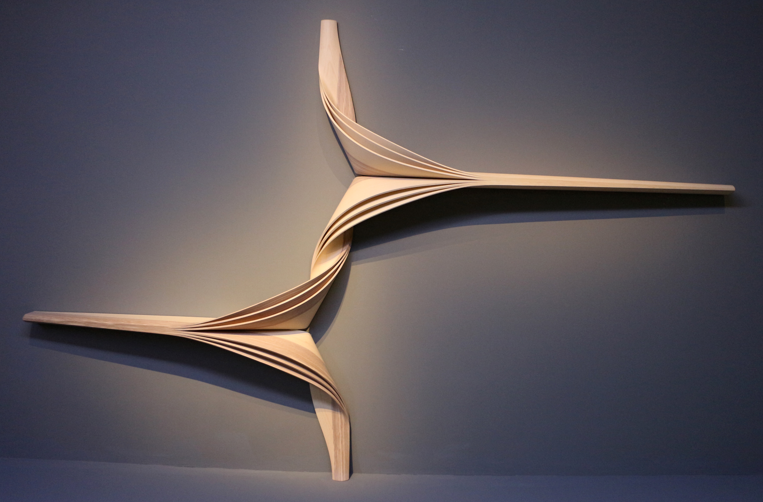 Decorative arts in the Musée national d'art moderne